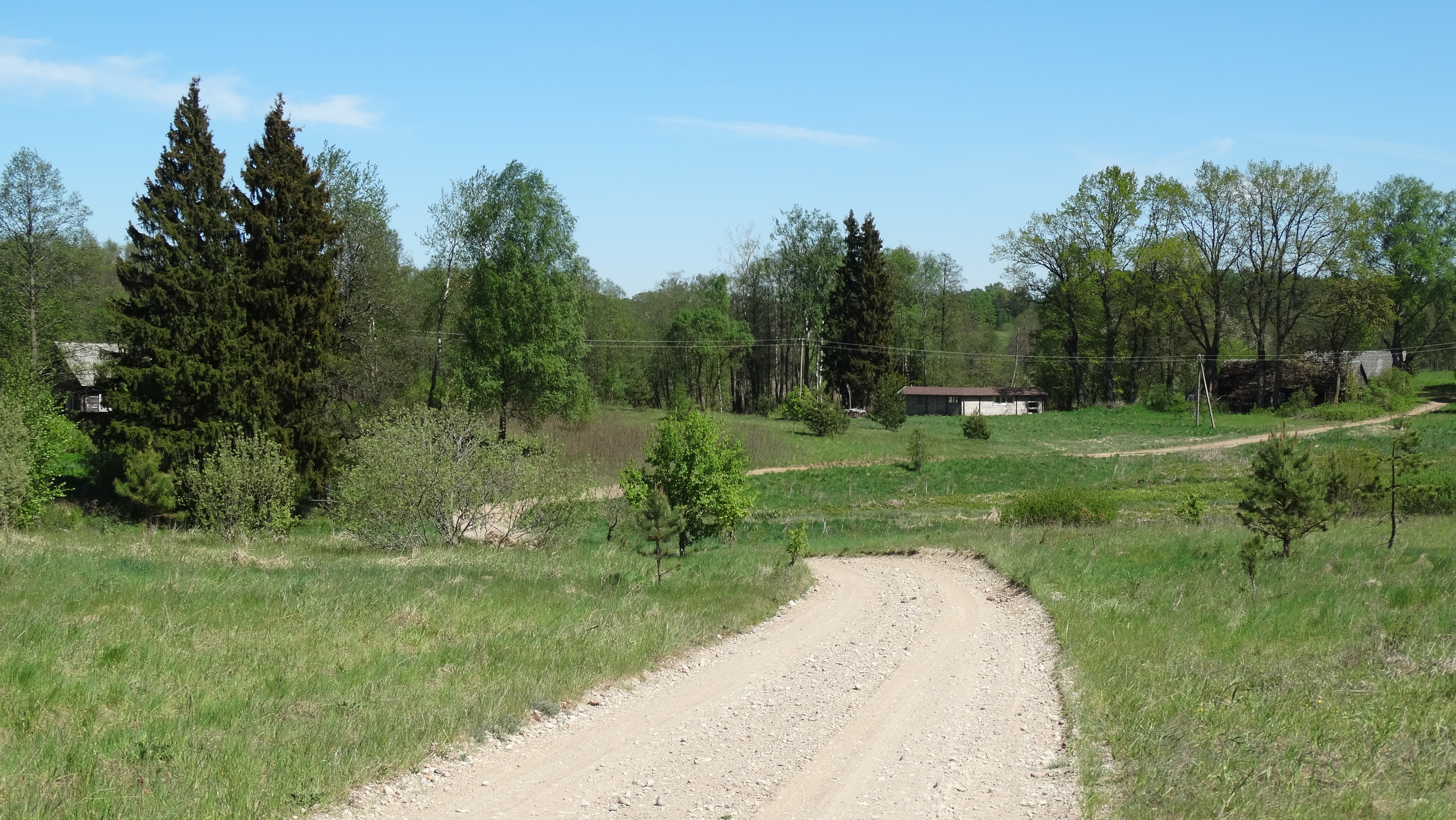 Mindučiai, Molėtai District, Lithuania